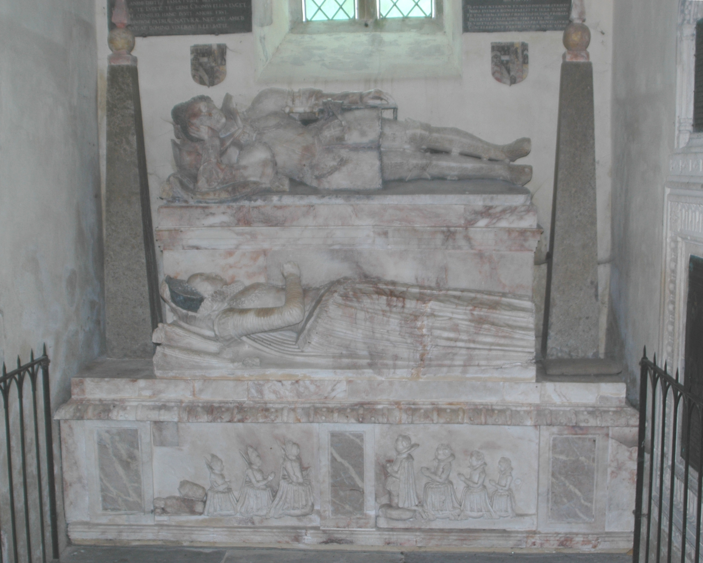 Alabaster monument to Sir William Dunche (1578–1611) and Lady Dunche in St Peter's parish church, Little Wittenham, Oxfordshire (formerly Berkshire)